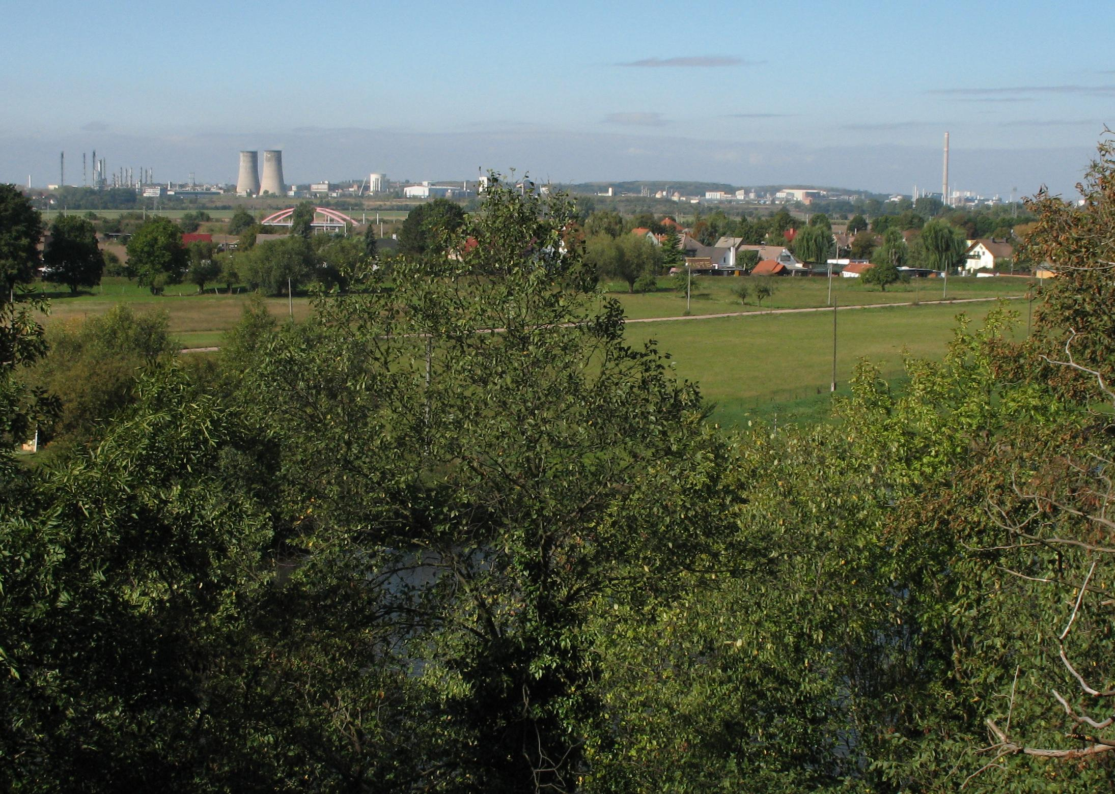 View from Bad Dürrenberg to Leuna in Saxony-Anhalt, Germany